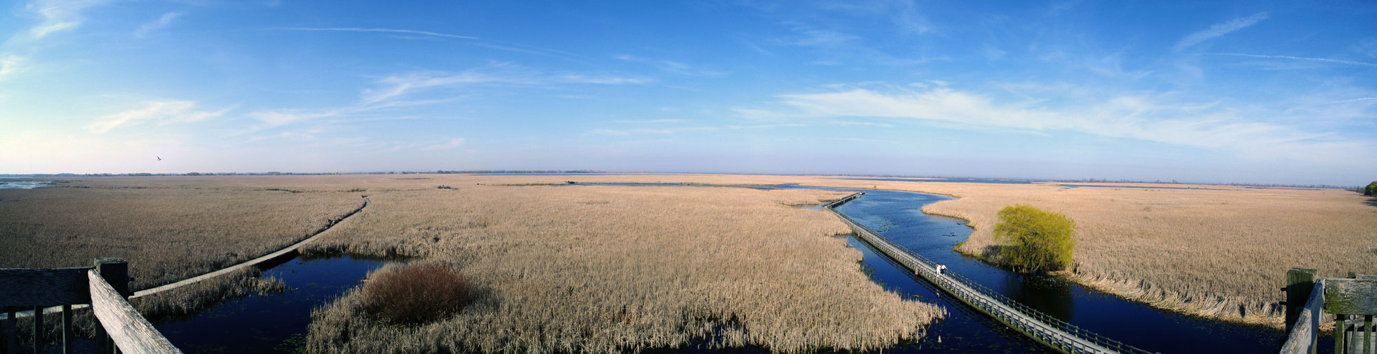 Panorama stitch of Point Pelee National Park in Ontario, Canada marsh boardwalk in Spring. Photo taken with Olympus MJU 300 3.2MPxl camera.